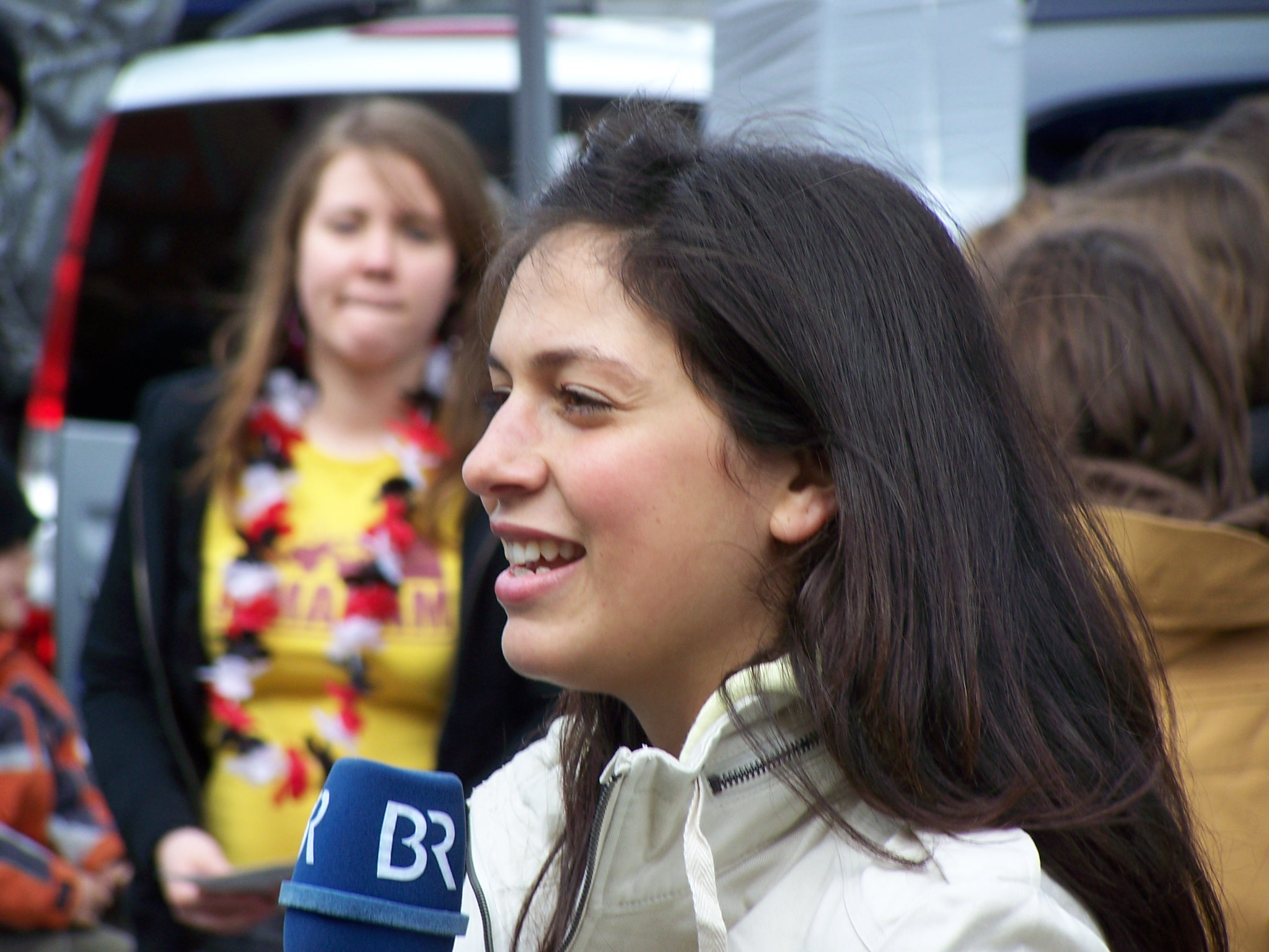 Nadia Kailouli, presenter of the German television show “Südwild” at Rathausplatz in Ingolstadt, Germany.